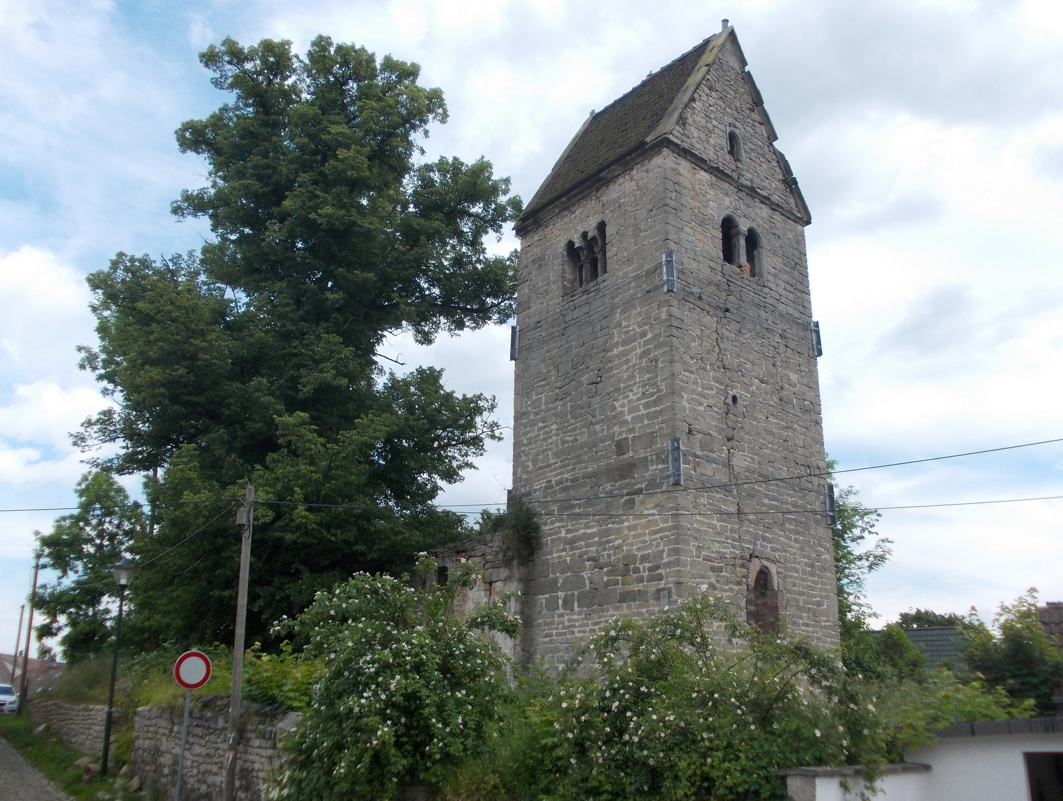 Ruins of St. Nicholas' Church in Obhausen (district: Saalekreis, Saxony-Anhalt)